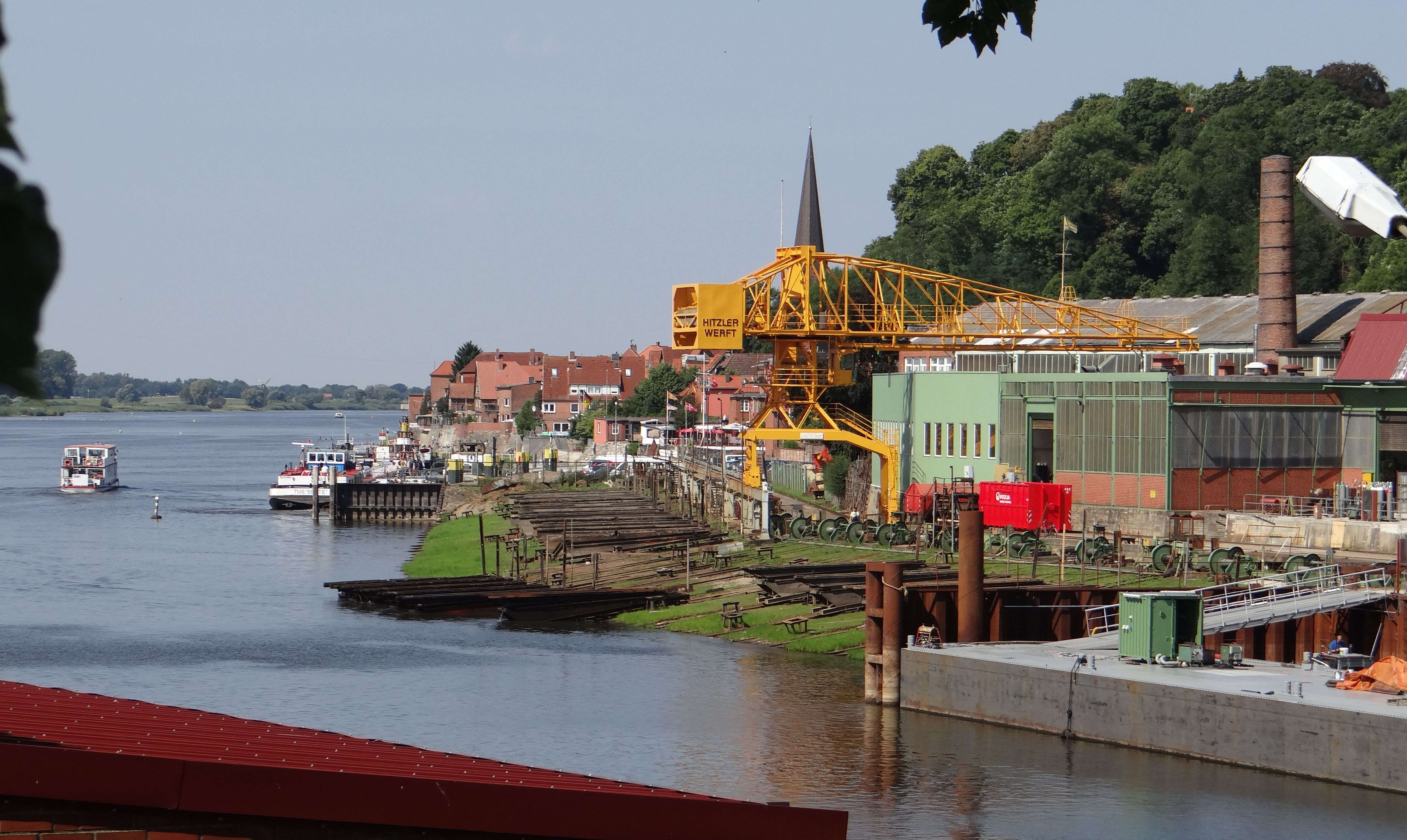 Hitzler ship yard in Lauenburg, Germany.